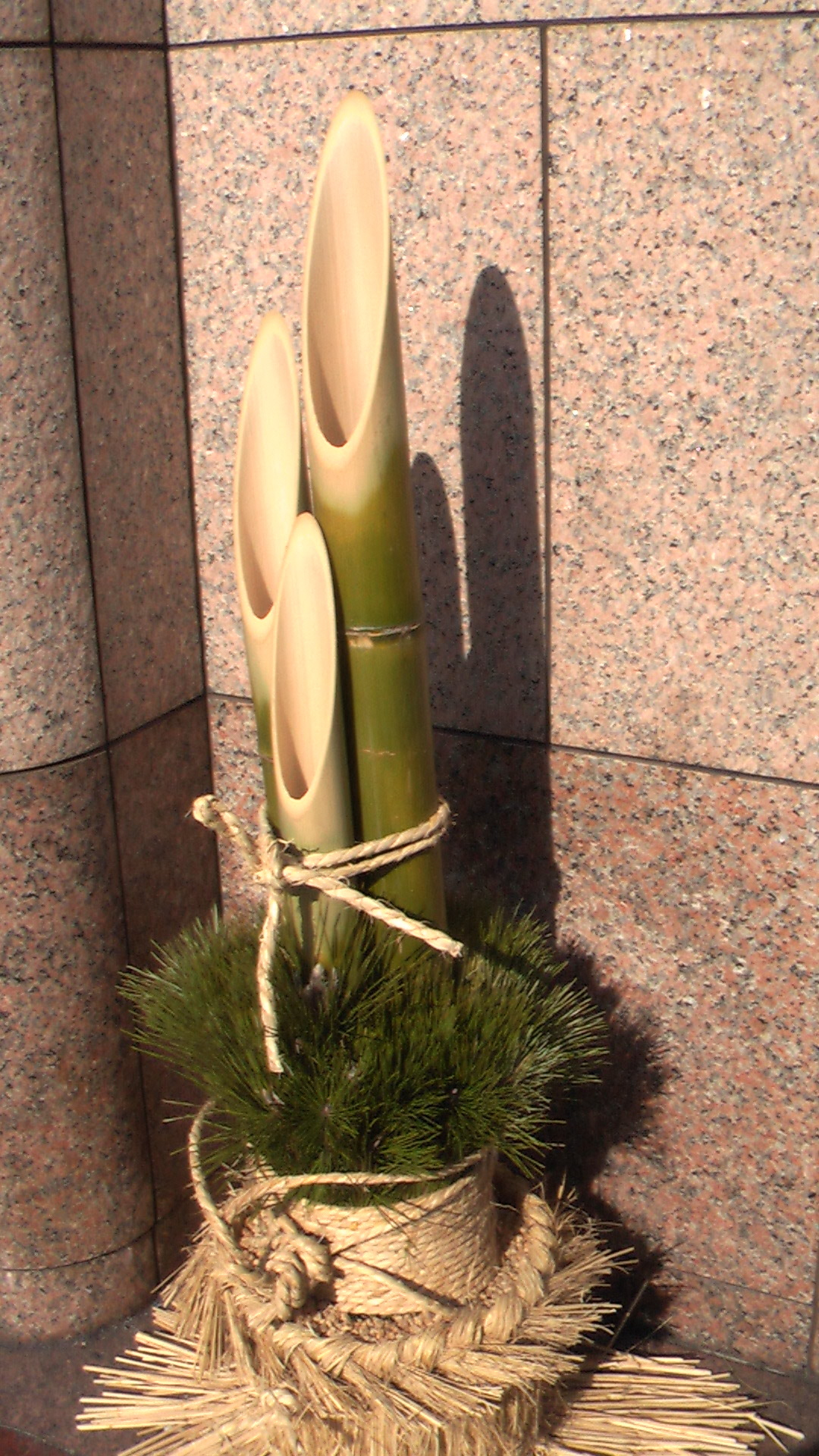 Kadomatsu (easy to see version)